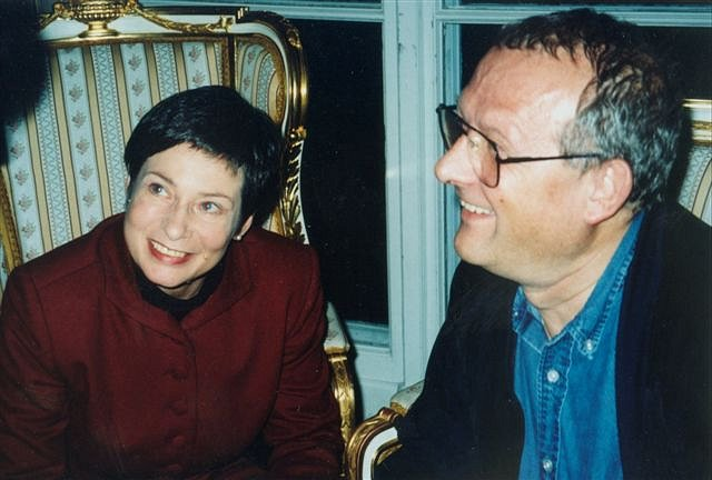 Barbara Toruńczyk (b. 1946), Polish journalist and essayist and Adam Michnik (b. 1946), Polish journalist, essayist and politician